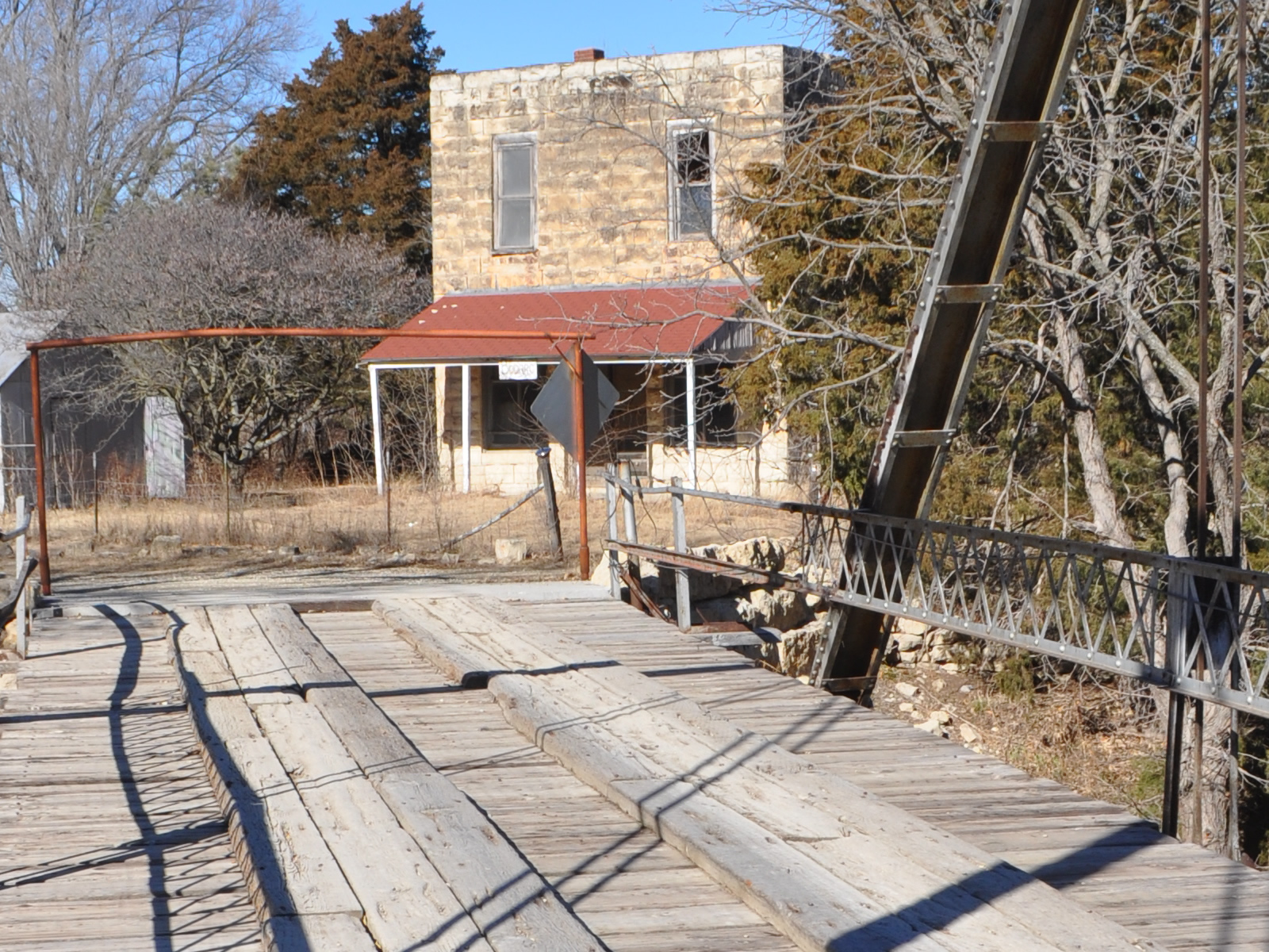 View of the old Bodarc (Bois d'Arc) post office from the bridge